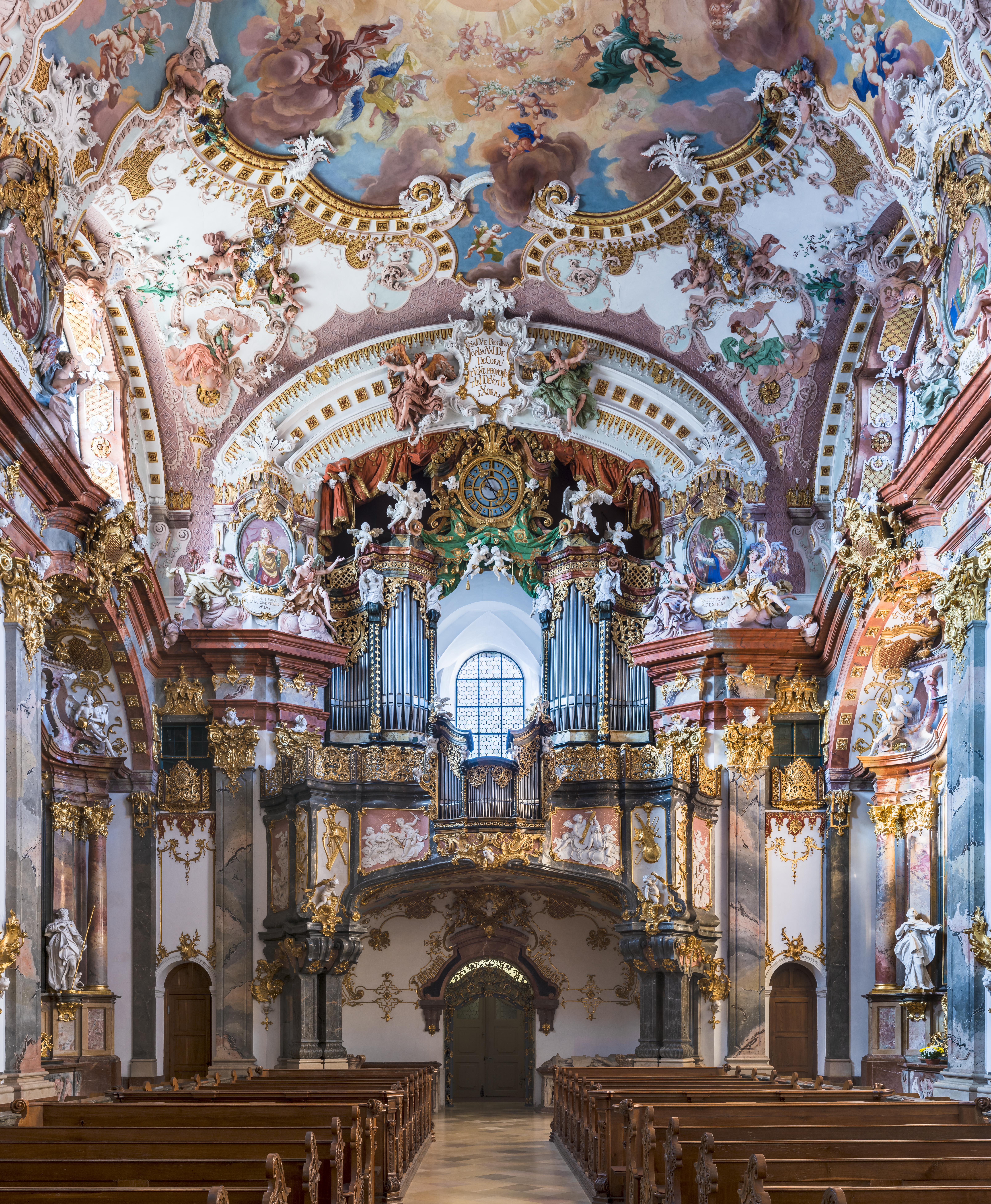 Pipe organ at Wilhering Abbey Church, Upper Austria. Leopold Breinbauer, III/39, built in 1884. Baroque case of the organ by Johann Ignaz Egedacher, 1741.